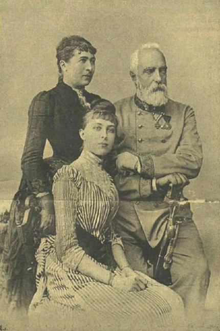 Portrait of Archduke Heinrich Anton of Austria, his wife Leopoldine Hofmann (1842–1891) and daughter Maria Rainiera (1872–1936)